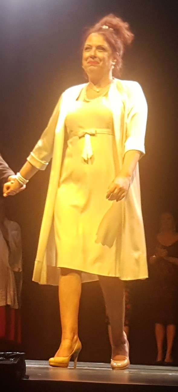 Eleni Randou / Rantou, actor in the theatrical play Filoumena, Athens, 2017